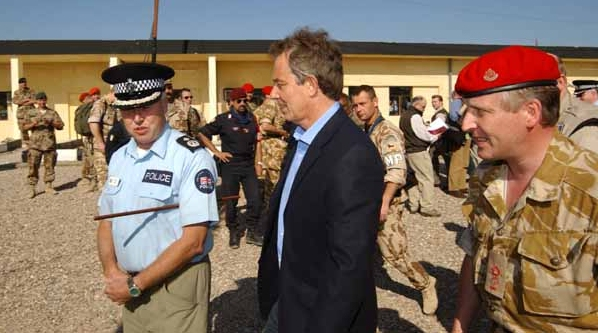 Tony Blair in Iraq in 2005.